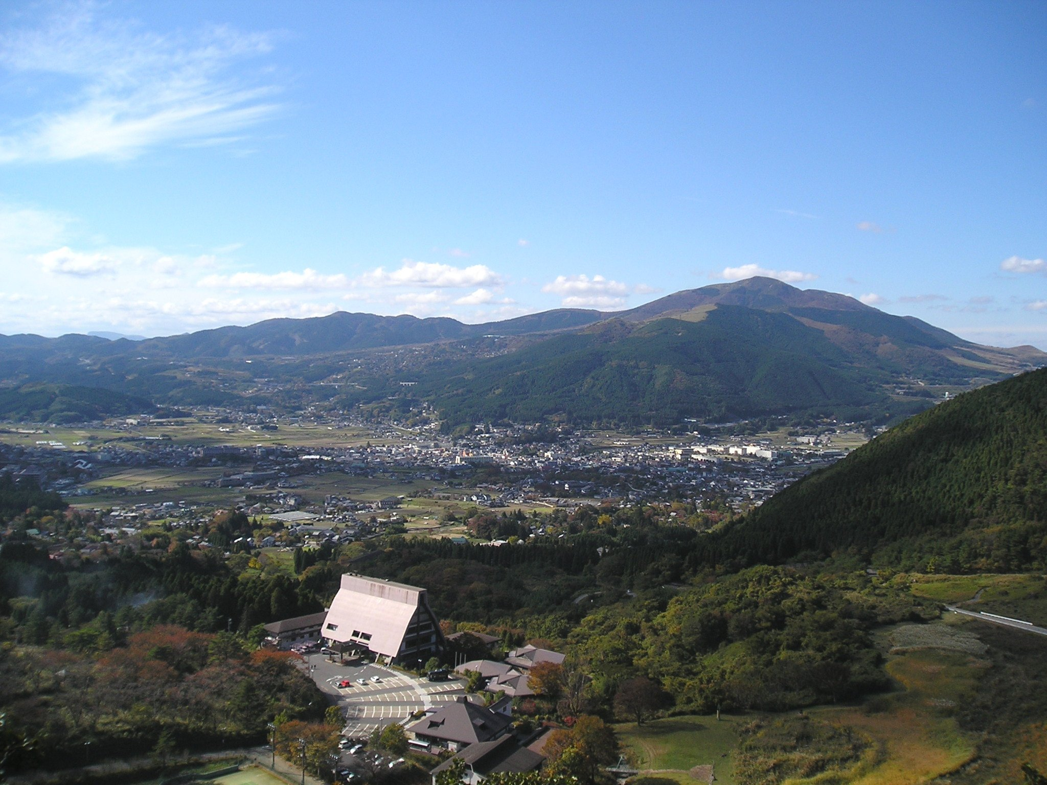 View of Yufuin from Sagiridai view point.